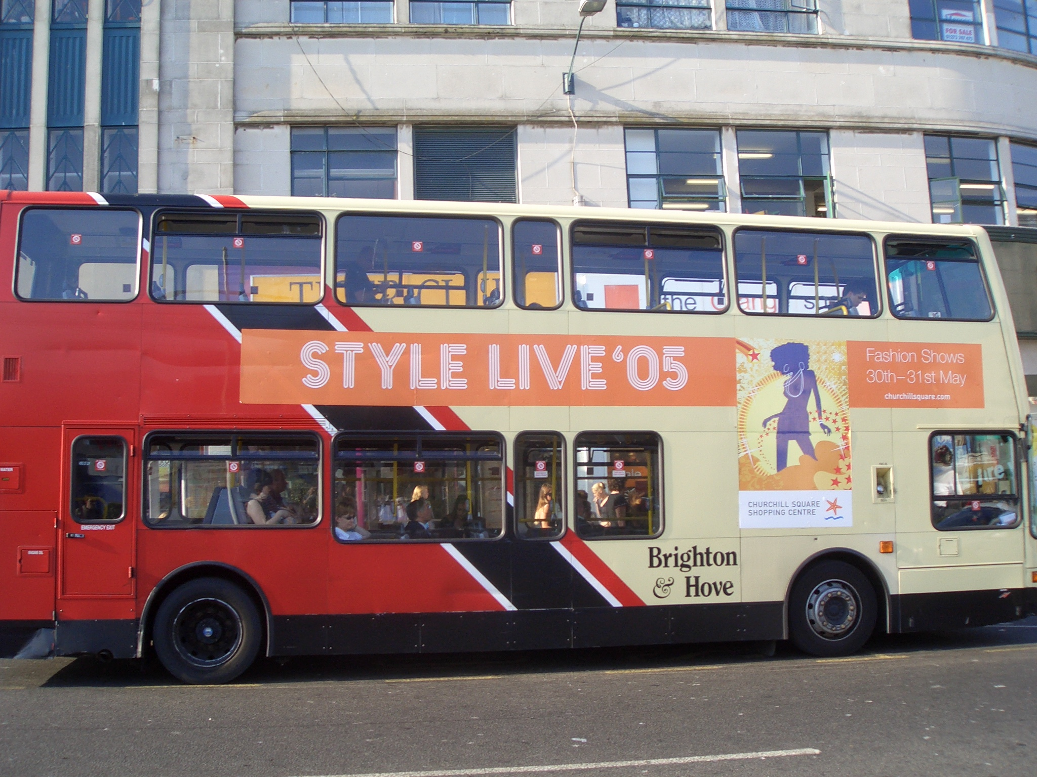 The side of a Brighton & Hove bus in Brighton, a Dennis Trident/Plaxton President.